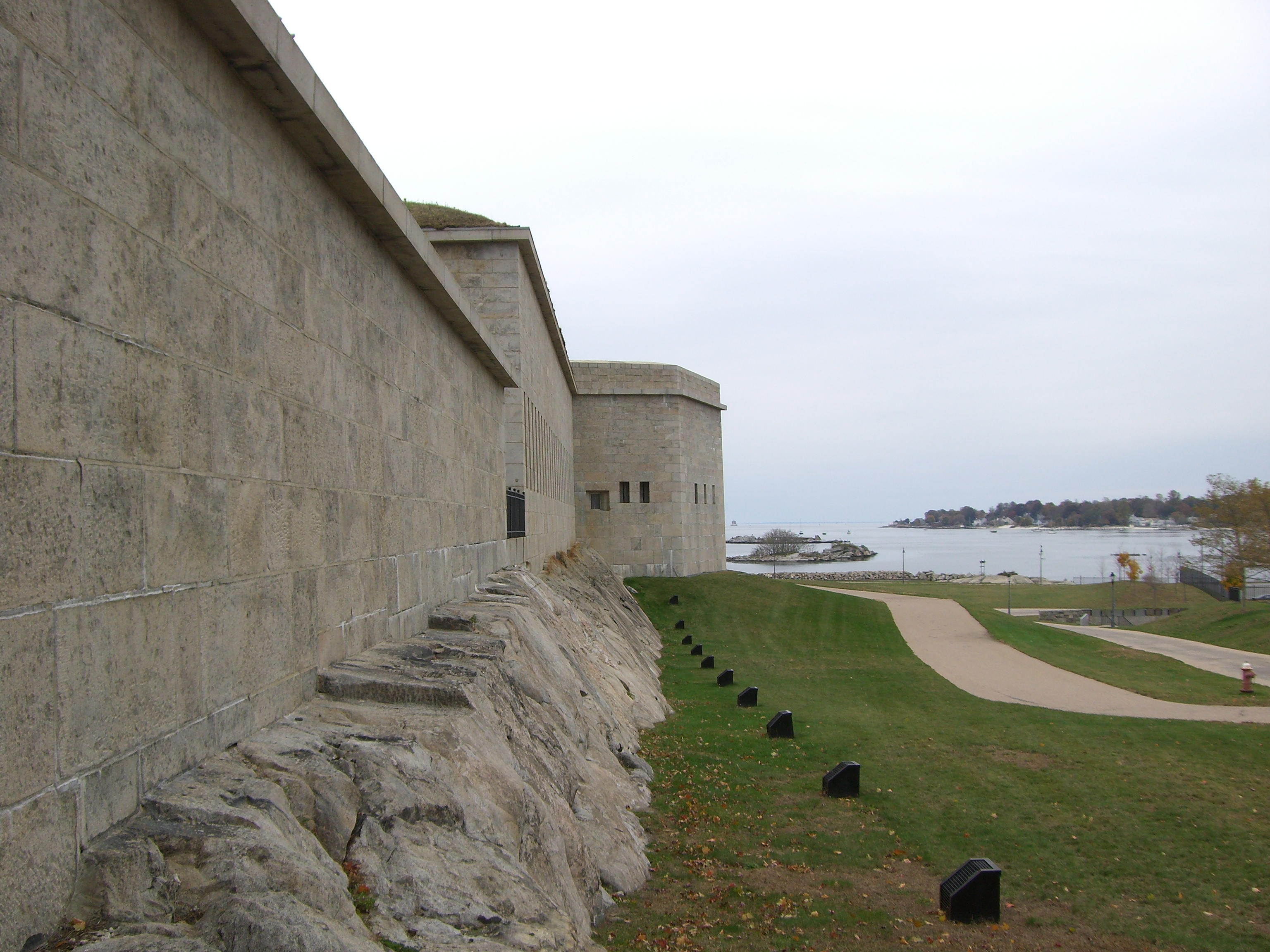 Fort Trumbull. Taken by myself, November, 2007.